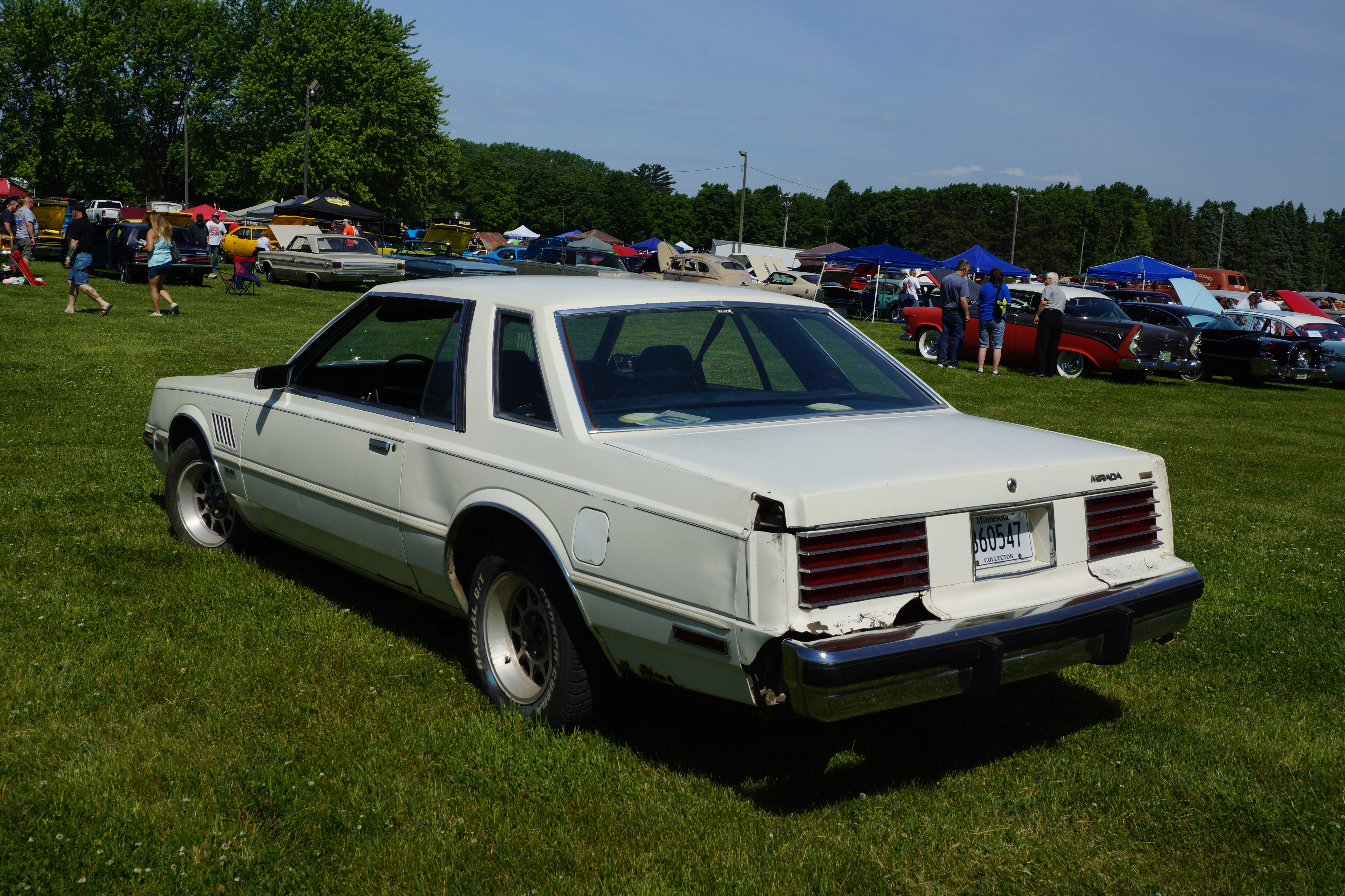 Midwest Mopars in the Park National Car Show & Swap Meet Dakota County Fairgrounds Farmington, Minntesota June 2-4, 2017